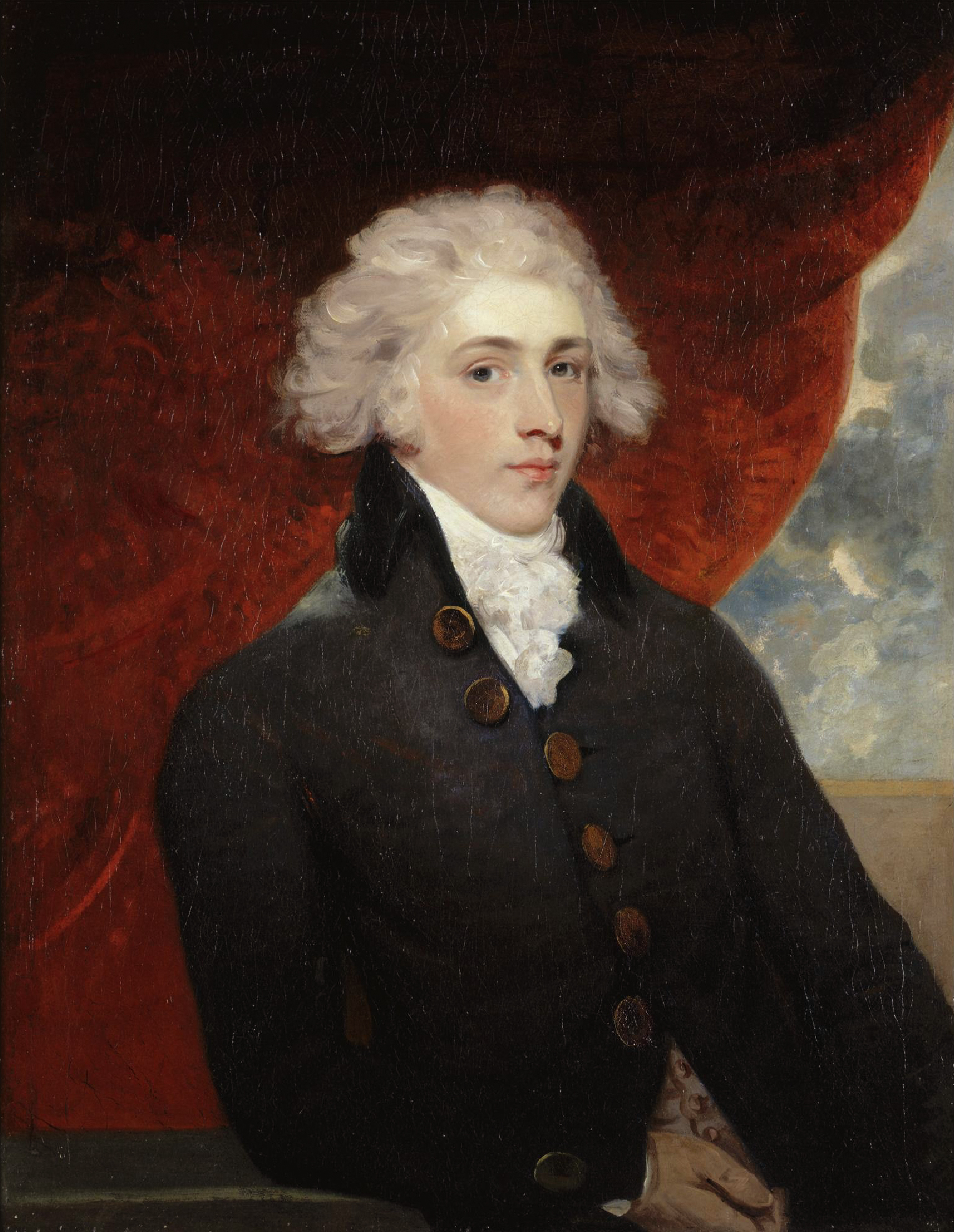 John Pitt, 2nd Earl of Chatham (1756-1835) oil on canvas 91.5 x 71 cm